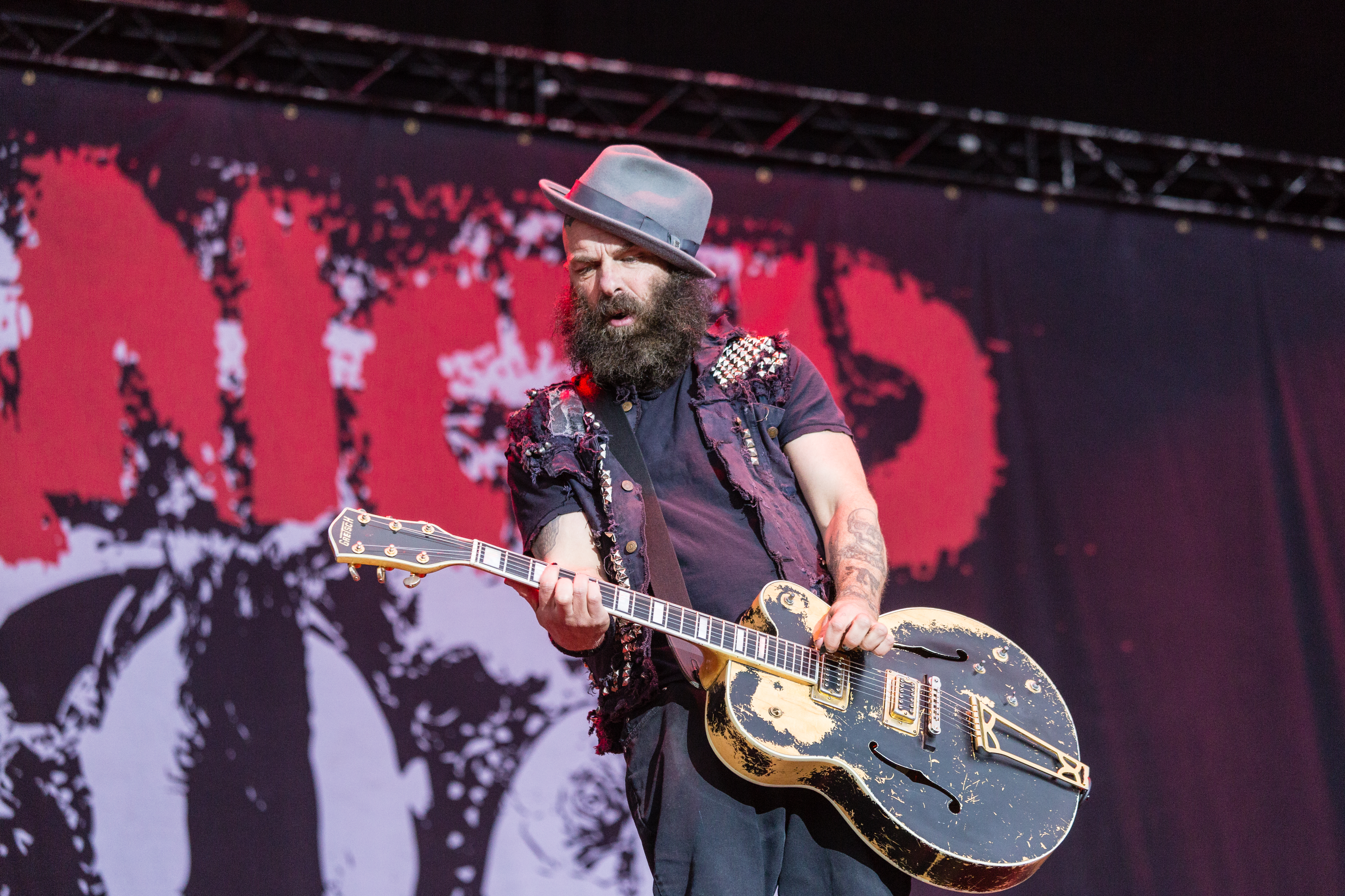 Nova Rock 2017 Tim Armstrong from Rancid at the Nova Rock 2017